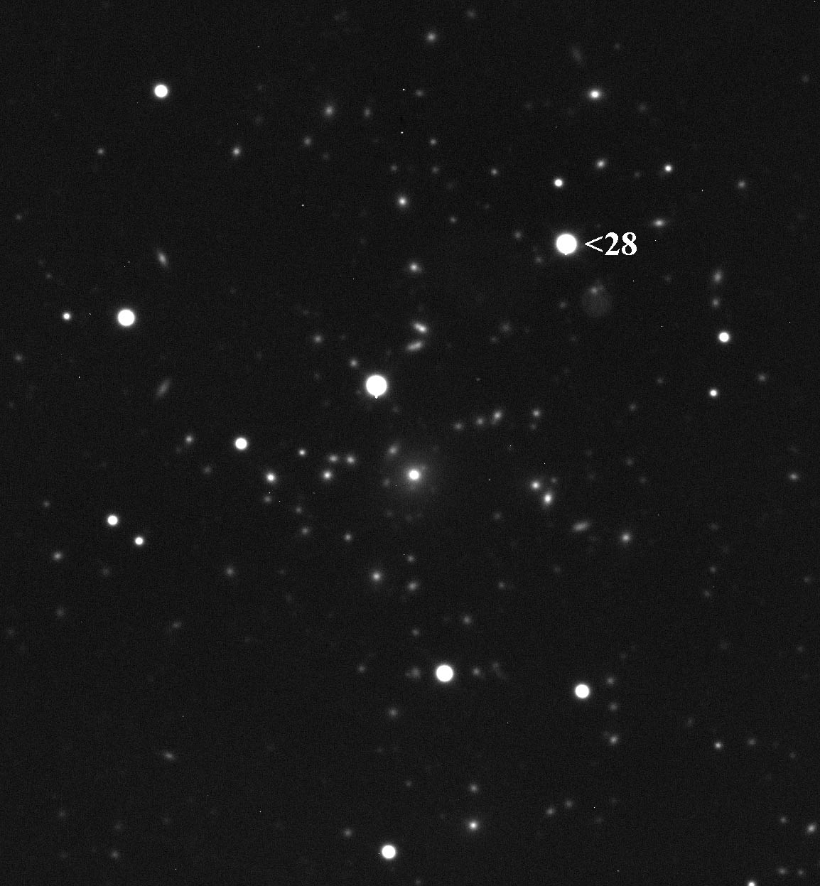 5 minute exposure of asteroid 28 Bellona with a 24" telescope. 28 Bellona is apparent magnitude 11.8 in this image taken at 2009-10-25 05:30 UT. The barely blooming star to the lower left of Bellona is magnitude 12.0. There are many faint background galaxies visible in this image. The moon was about to set and was 42% full and 62 degrees away.